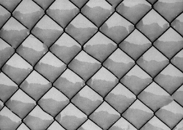 wire netting with snow Fotograf: "Waldi" Walter J. Pilsak Copyright Status: GNU Freie Dokumentationslizenz